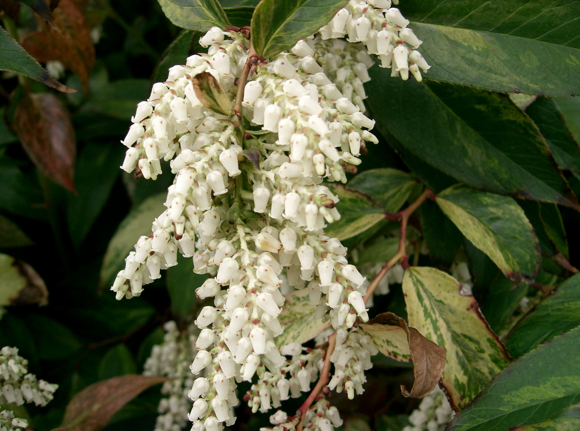 Leucothoe catesbaei 'Rainbow'